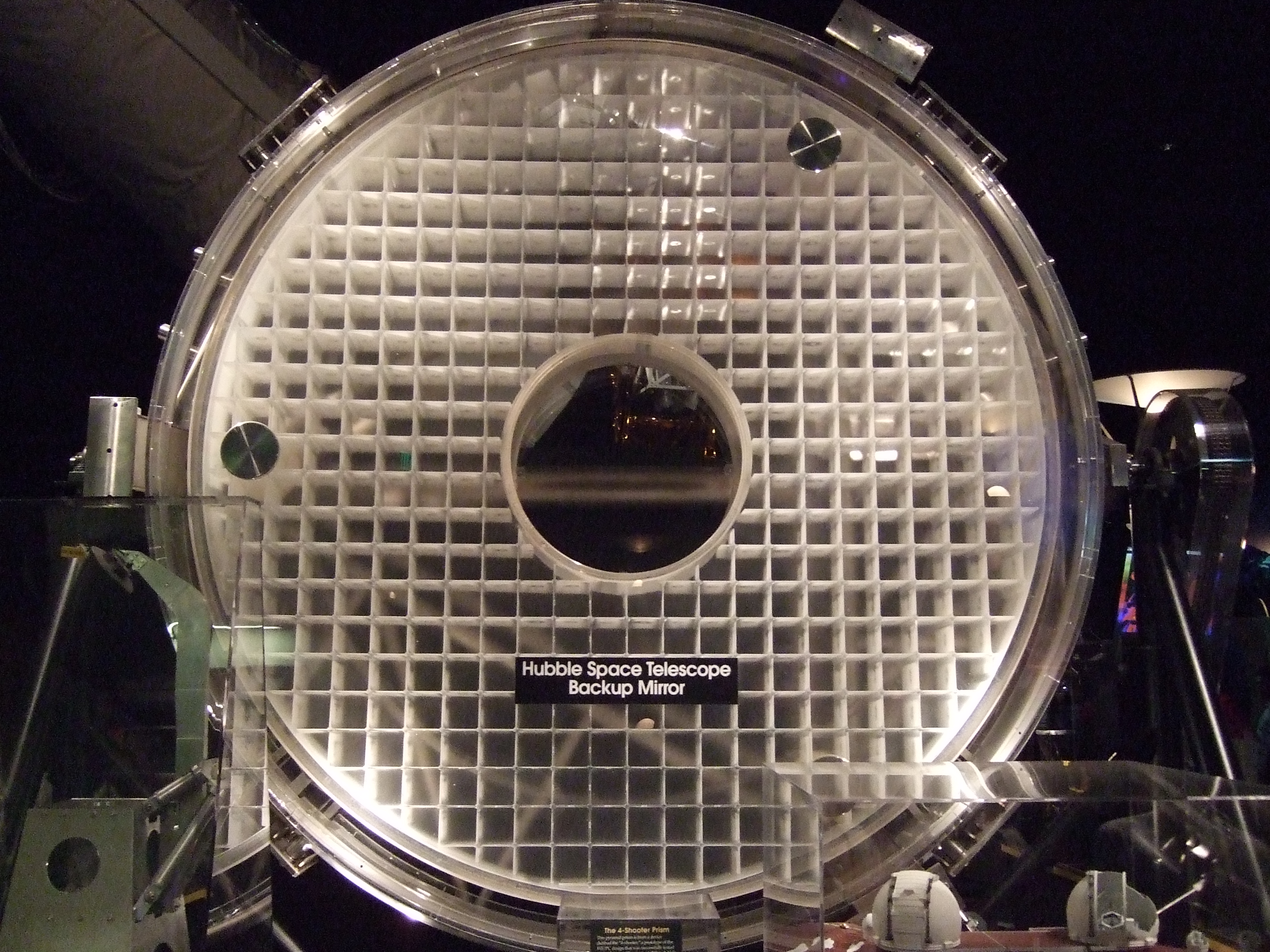 Hubble Space Telescope backup mirror (Smithsonian Institution Aerospace Museum, Washington, DC)